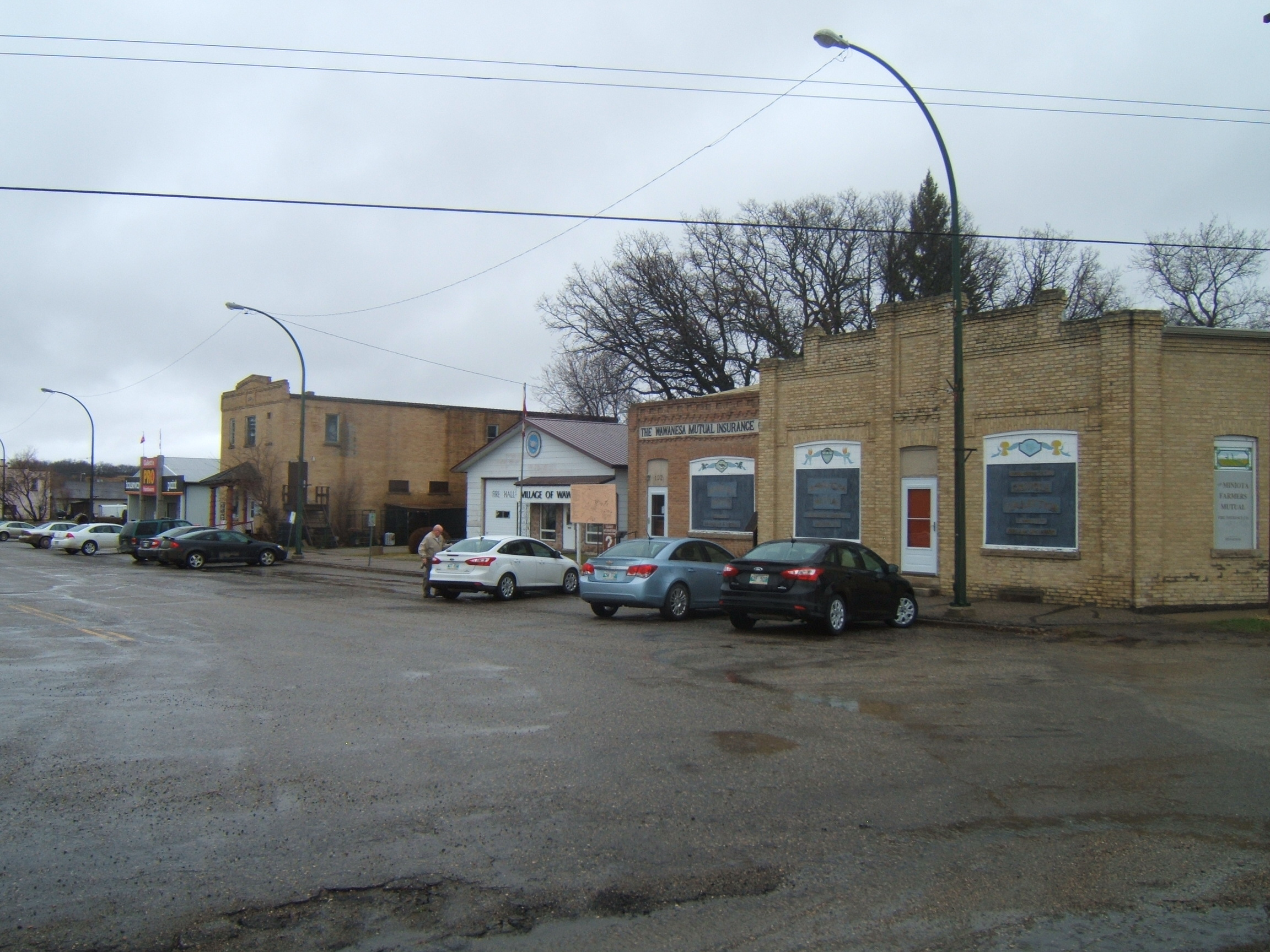 Downtown Wawanesa, Manitoba on a rainy May day, 2014.